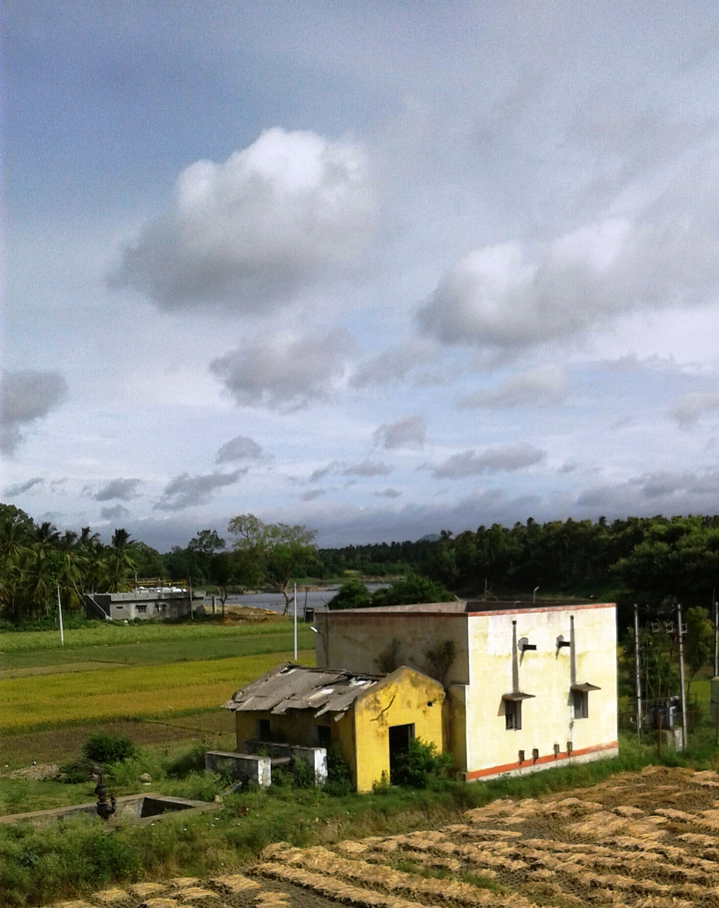 Mandagere, Near Kikkeri Town, Mandya district, Karnataka state, India.